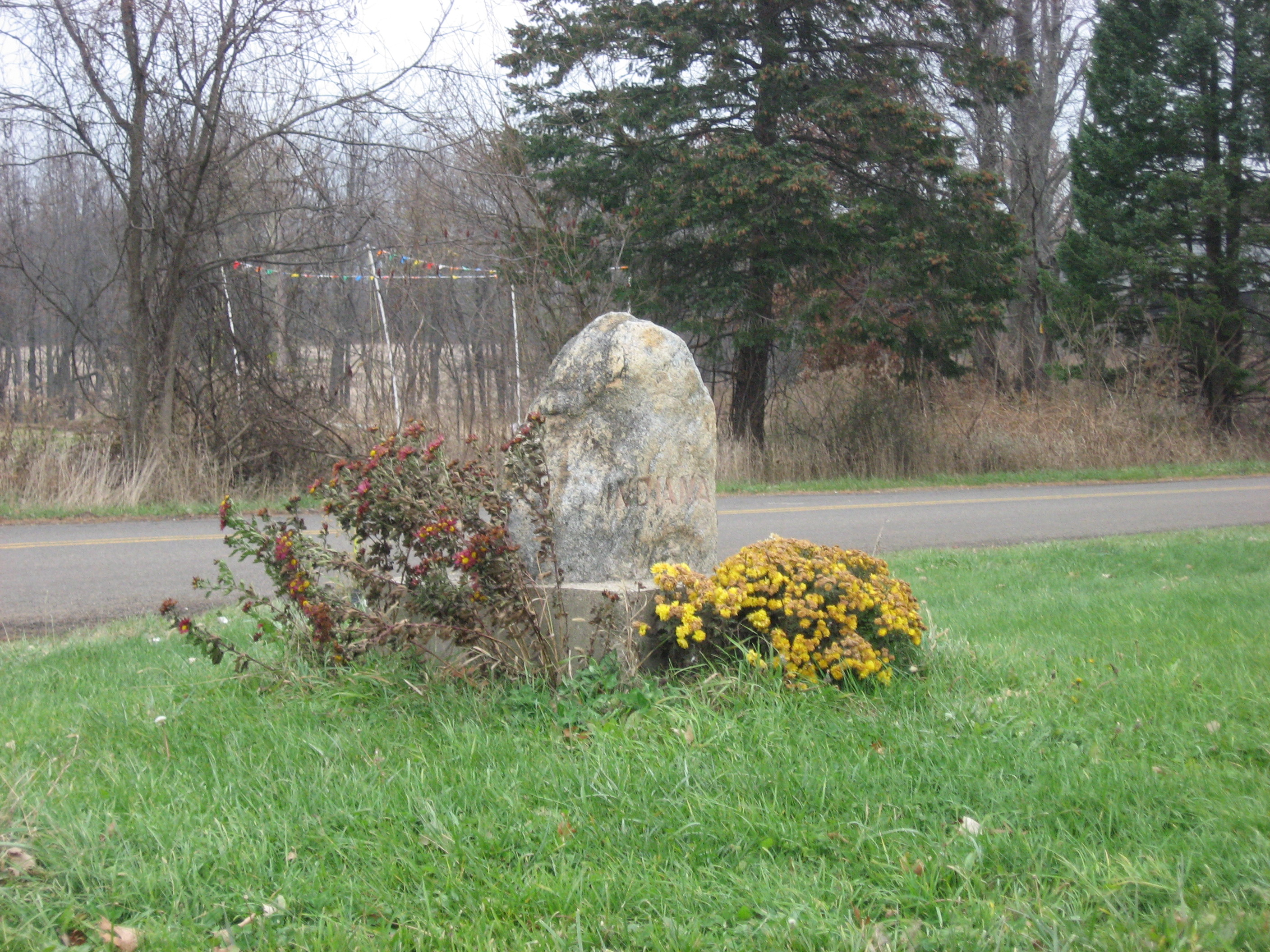 Boundary stone on the Indiana-Michigan border near South Bend, Indiana, United States. This stone marks the boundary at the junction of Chicago and Redwood Roads, about 10 miles northwest of downtown South Bend.